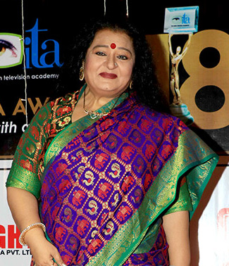 Apara Mehta in ITA Awards 2018